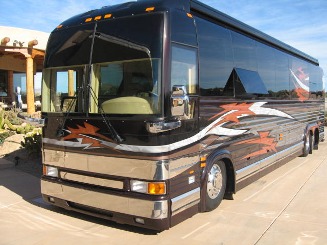 Prevost Marathon Luxury Bus Conversion